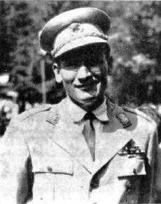 Rudolf Hribernik-Svarun, (1921-2002), Slovene partisan, national hero and general of Yugoslav People's Army